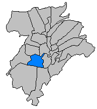 Map of Luxembourg City, Luxembourg, with the boundaries of the city's twenty-four quarters demarcated and the quarter of Hollerich highlighted in blue.